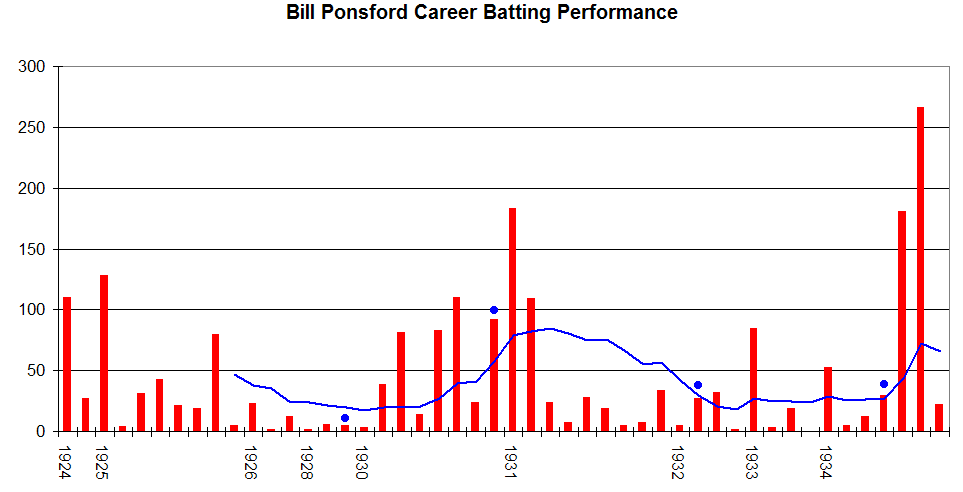 This graph details the Test Match performance of Bill Ponsford. It was created by Raven4x4x. The red bars indicate the player's test match innings, while the blue line shows the average of the ten most recent innings at that point. Note that this average cannot be calculated for the first nine innings. The blue dots indicate innings in which Ponsford finished not-out. This graph was generated with Microsoft Excel 2002, using data from Cricinfo and .au.